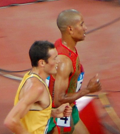 2008 Summer Olympics - Men's 5000m Round 1 - Heat 3 4 ENNAJI EL IDRISSI Abdelaziz 10 MOTTRAM Craig